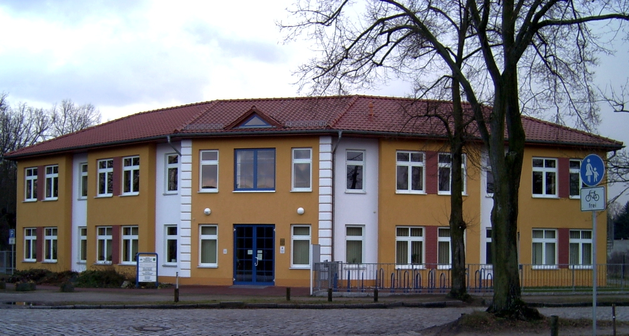 Helga-Hahnemann-House in Schöneiche bei Berlin, Brandenburg, Germany